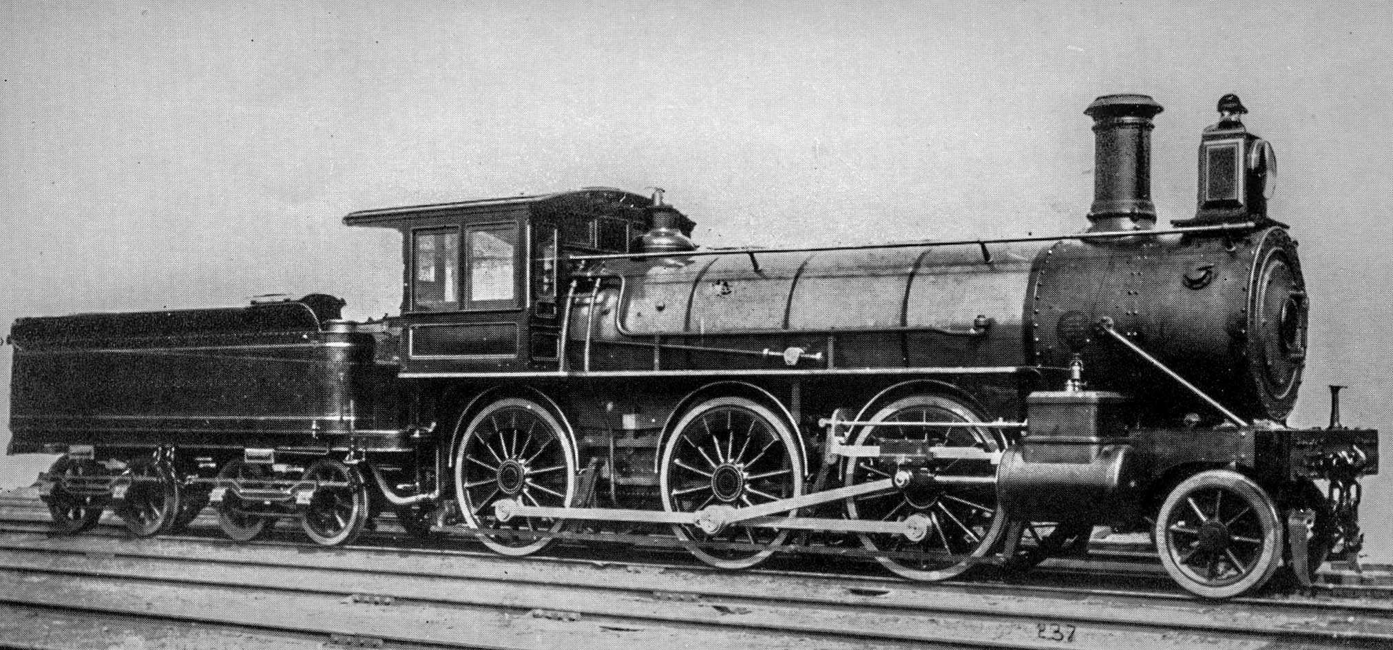 NSWGR L.304 Class Locomotive 2-6-0